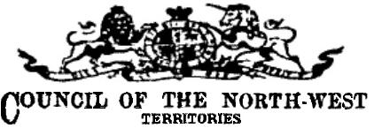 This is a cleaned up version of the second logo and coat of arms for the Council of the North-West Territories. It was originally used in 1874 and usage was stopped sometime before 1888. A color variant is unknown.